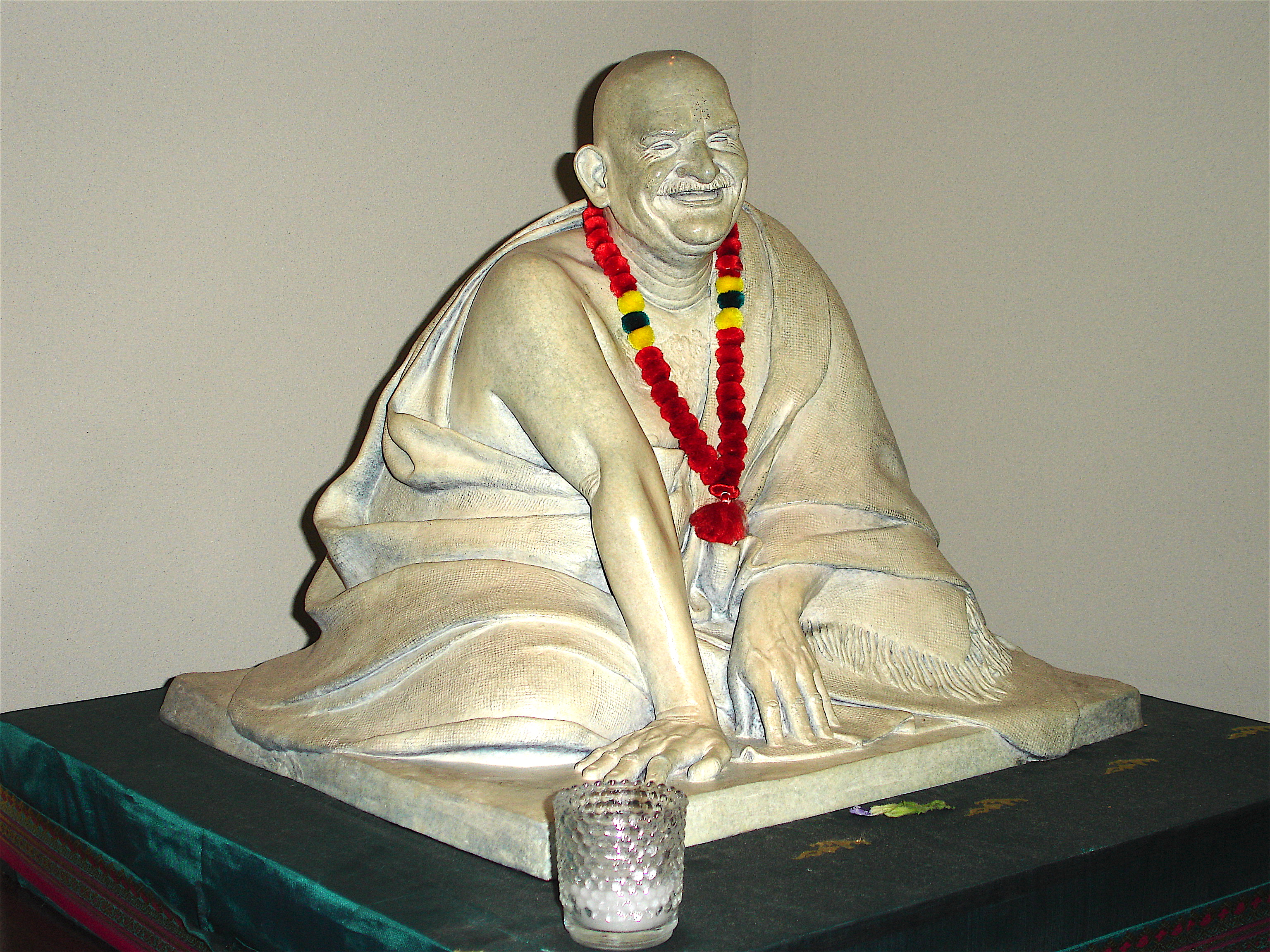 Neem Karoli Baba's sculpture in Ram Dass Library, Omega Institute for Holistic Studies, Rhinebeck, New York.